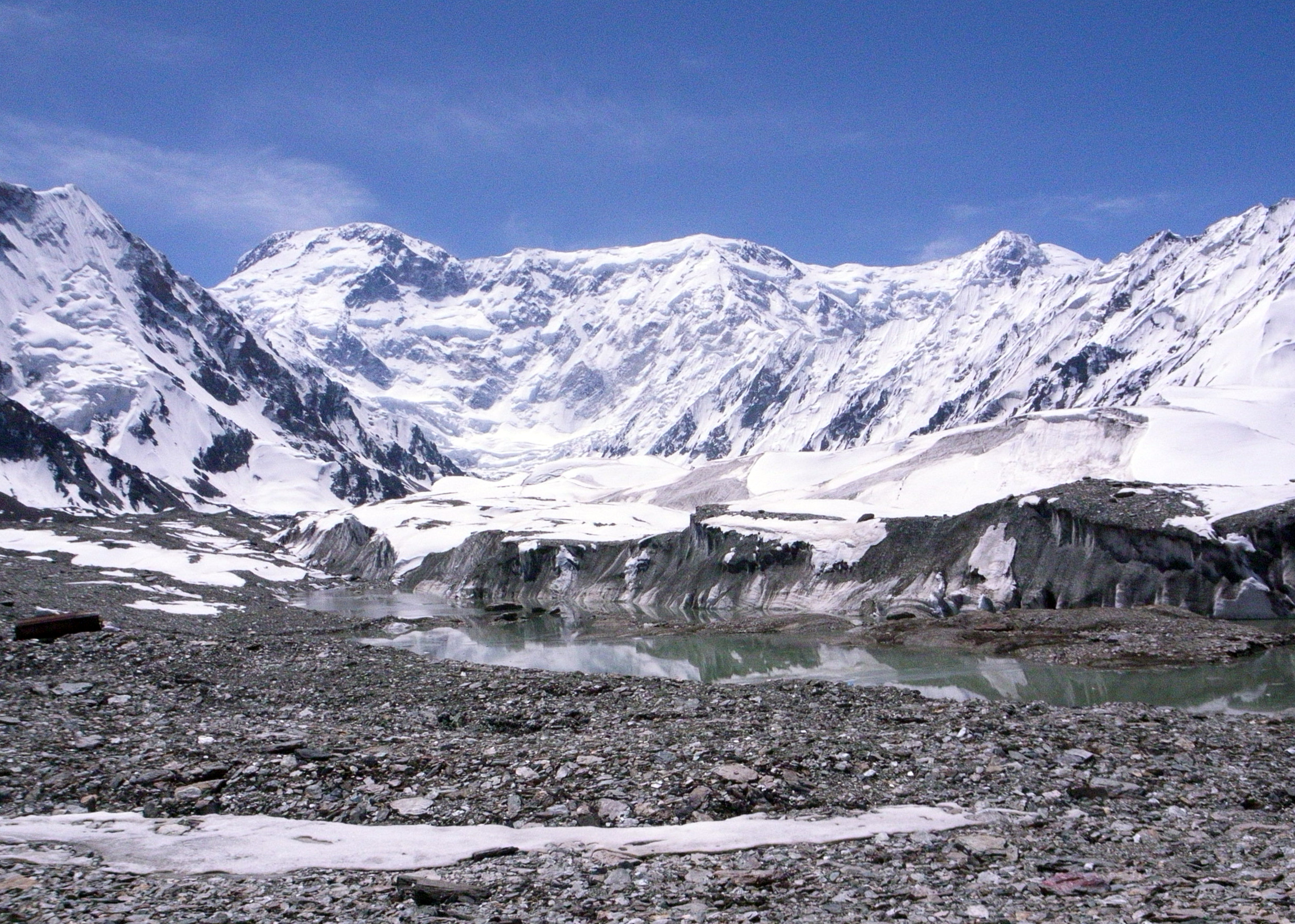 Jengish Chokusu (7439 m), aka Pik Pobedy (or Pik Pobeda) in the Tian Shan mountain range from base camp on the south Inylchek glacier, Kyrgyzstan/China